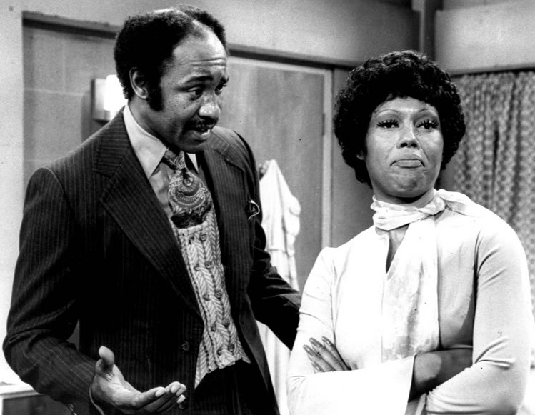 Photo from the television program Good Times. Pictured are Ja'net DuBois (Wilona) and her boyfrield played by J.A. Preston.